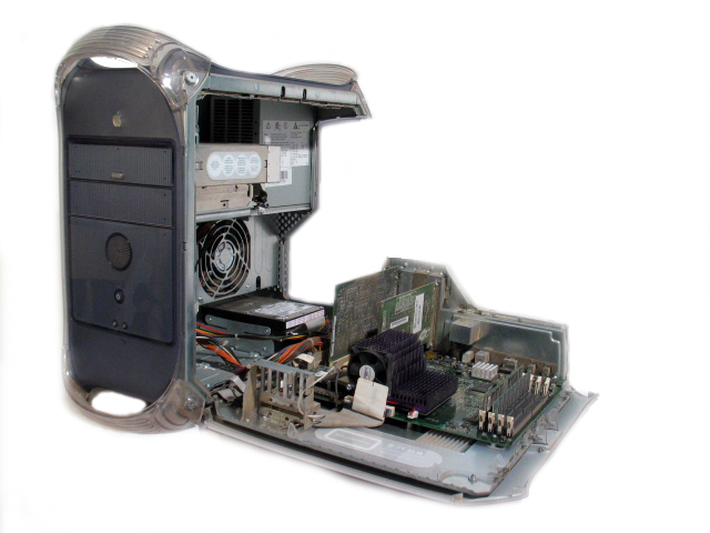 Stephen Gard